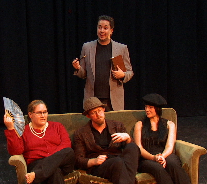 Ninjas - Couch Soup 2005. Pictured left to right: Caroline Hastings,Ross MacLeod, Tim Heal (rear), Maria Quigley.